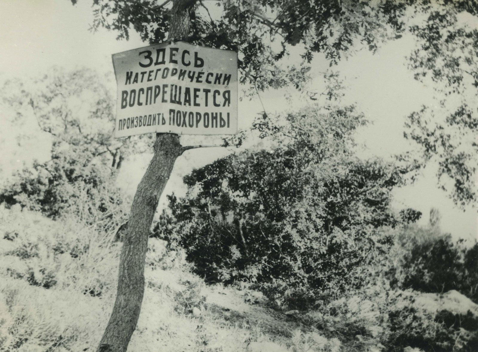 From 1935 publication 'Muss Russland Hungern?' [Must Russia Starve?], published by Wilhelm Braumüller, Wien [Vienna] depicted 1933 Kharkov